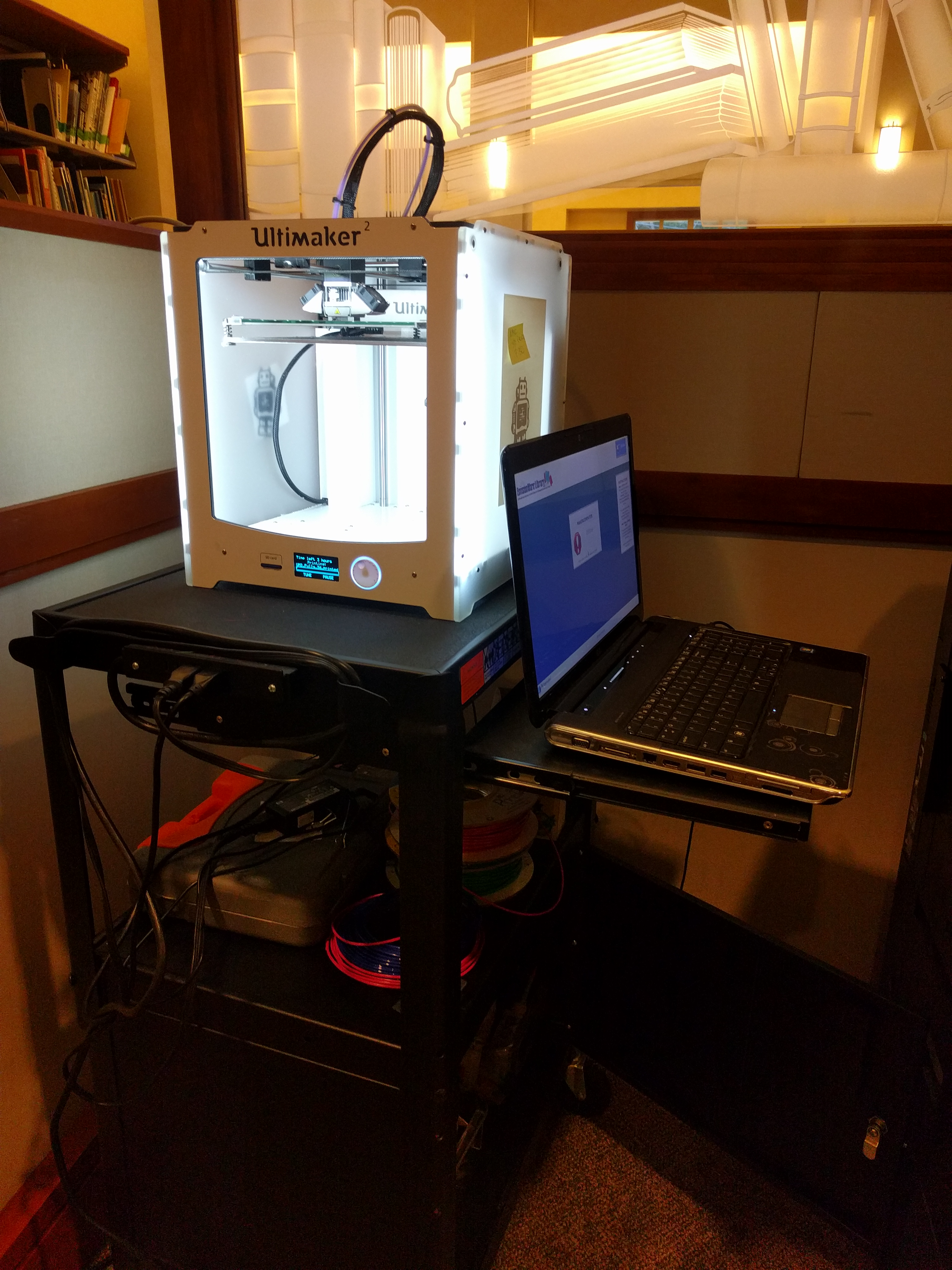 3D Printer in the library